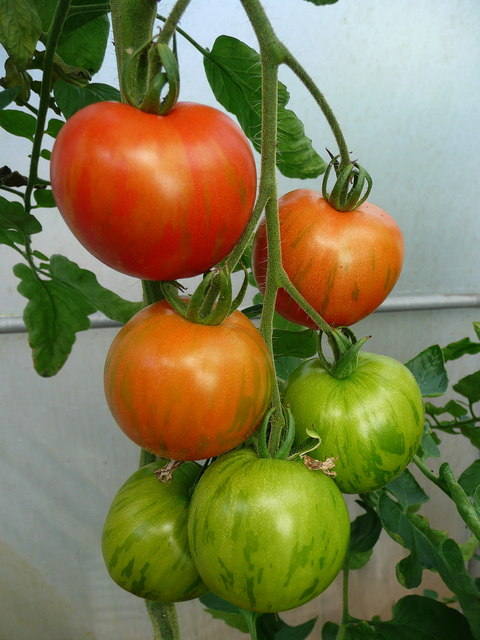 A nice crop. Tigerella tomatoes (Lycopersicon esculentum).